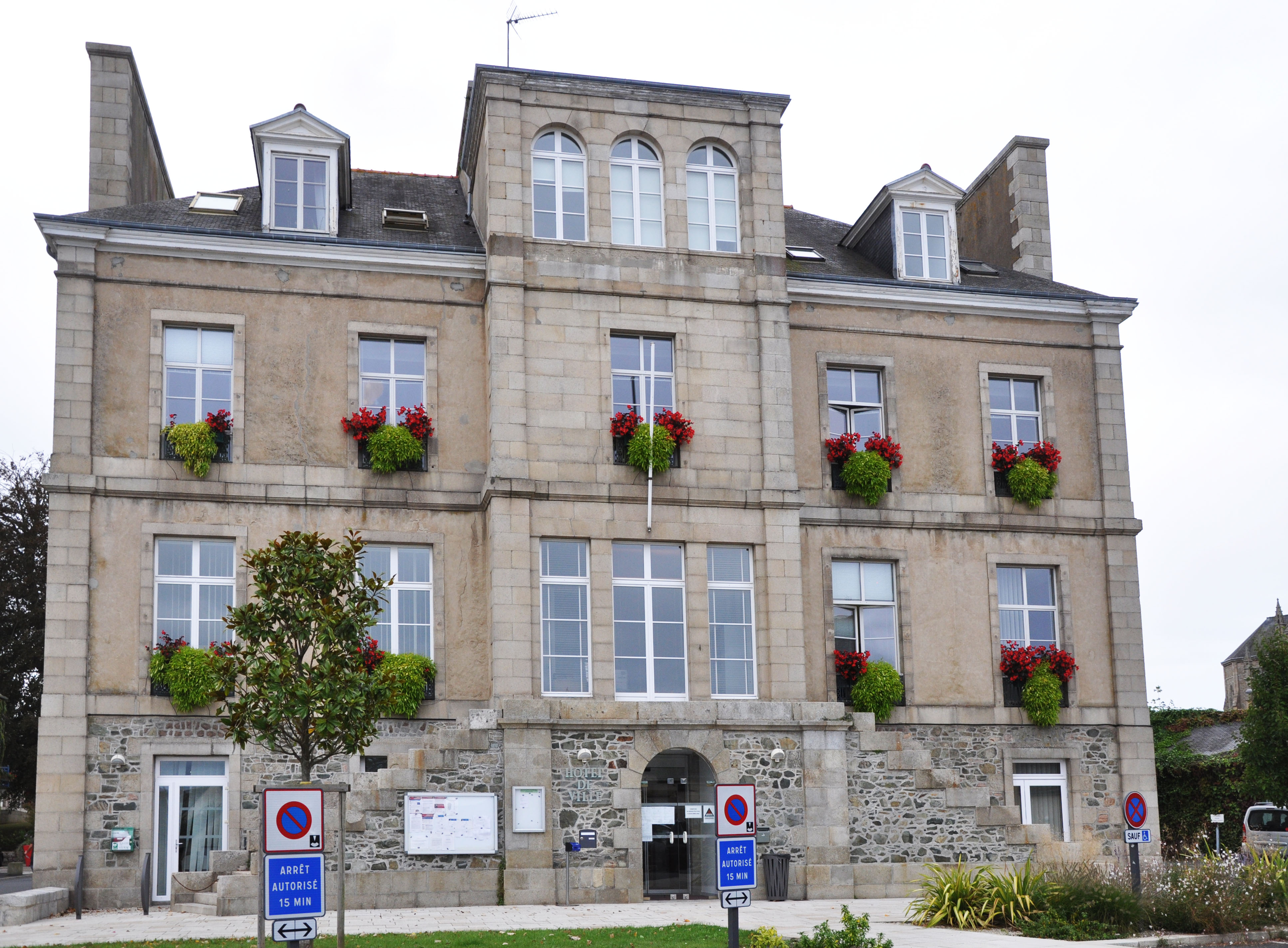 Paimpl (France, Brittany)